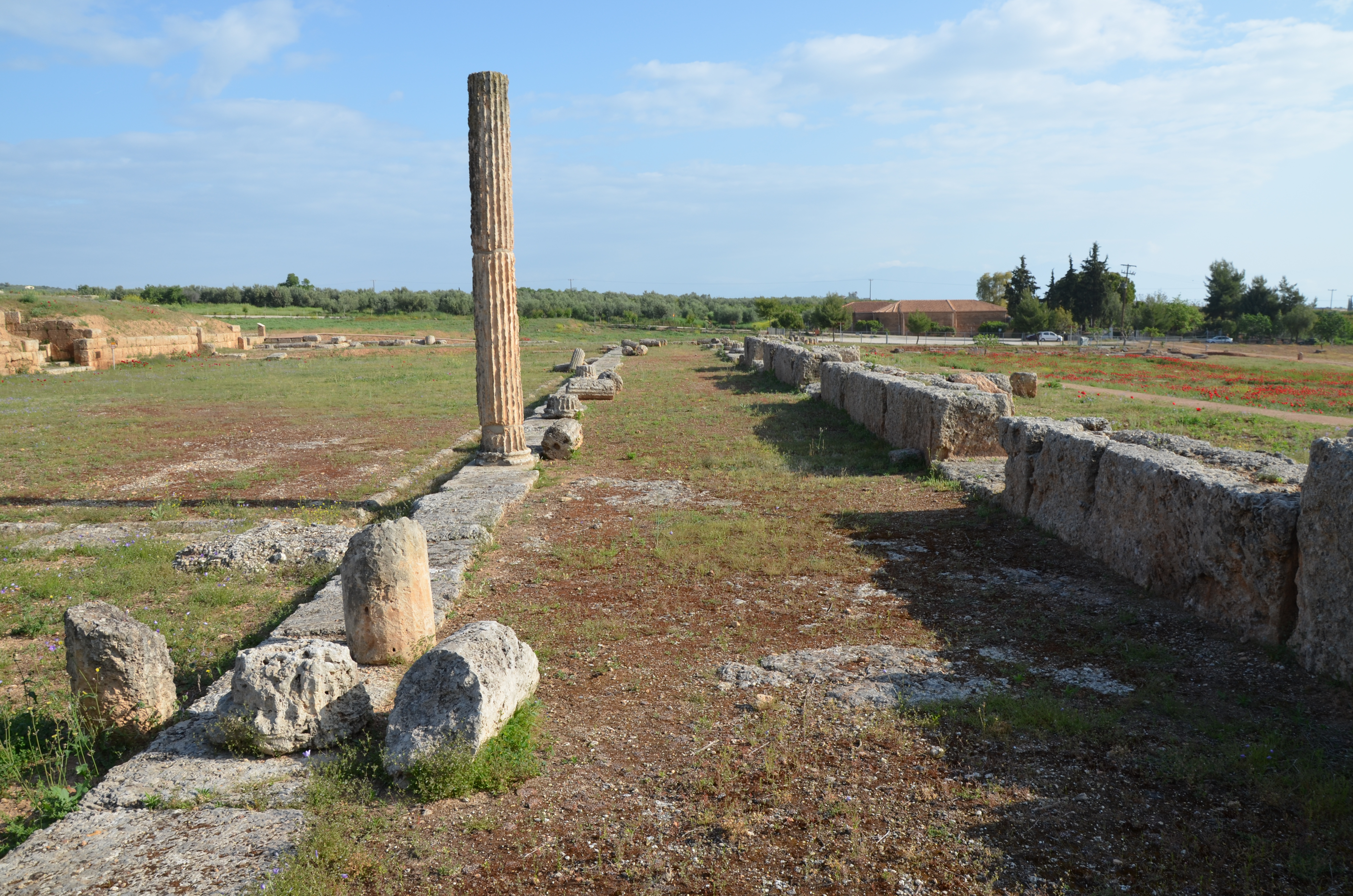 Sikyon, Greece